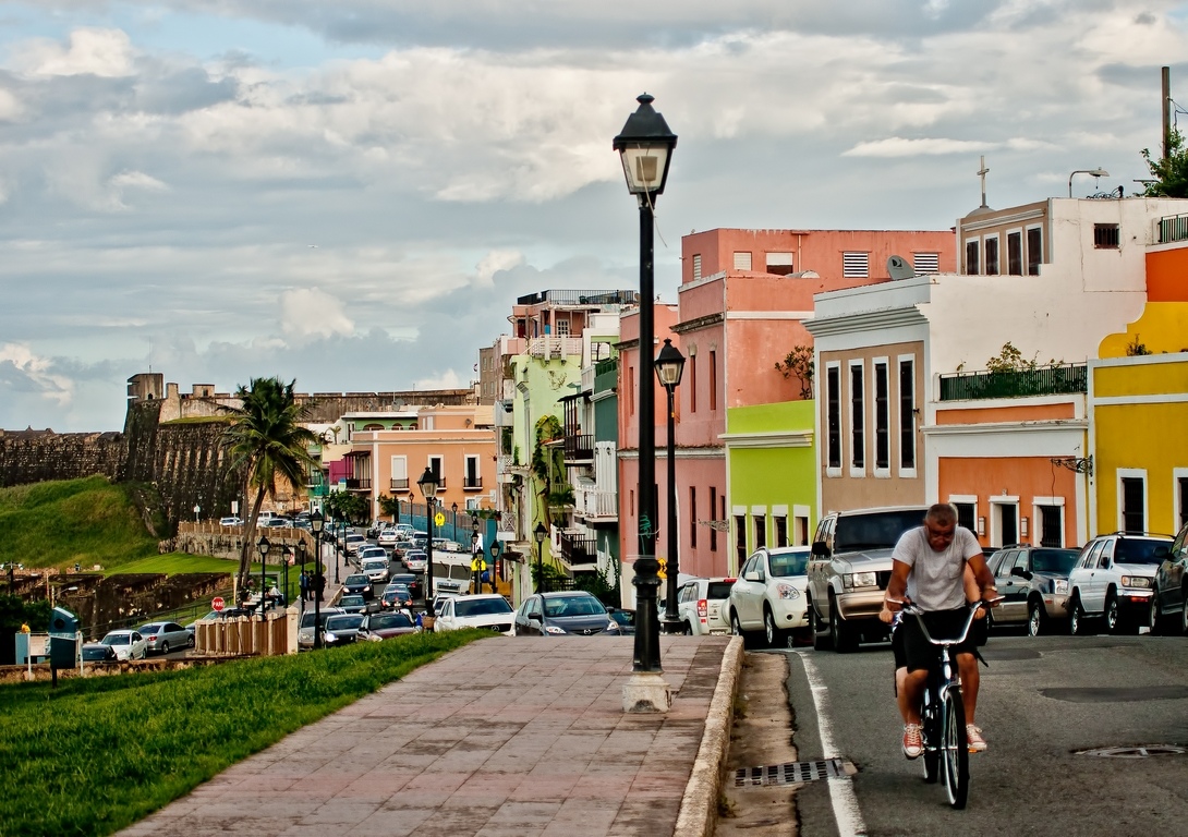 Cars, houses, street light, man on bicycle and El Morro in Old San Juan